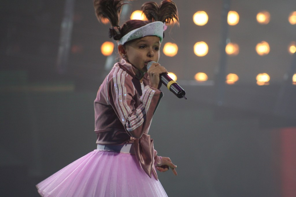 Kseniya Sitnik at the Junior Eurovision Song Contest 2005